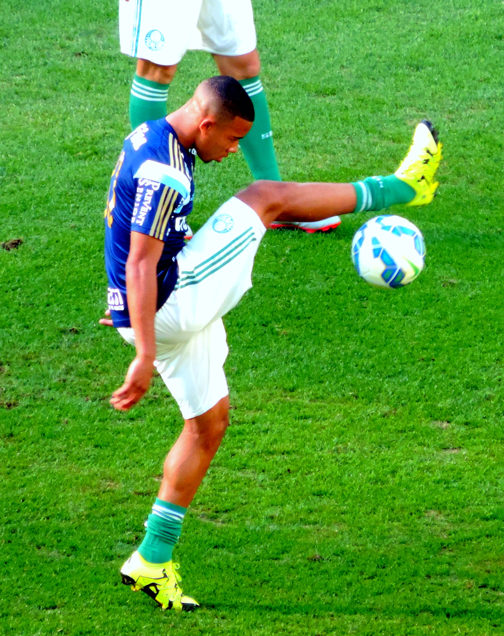 Gabriel Fernando de Jesus, known as Gabriel Jesus, is a brazilian football player